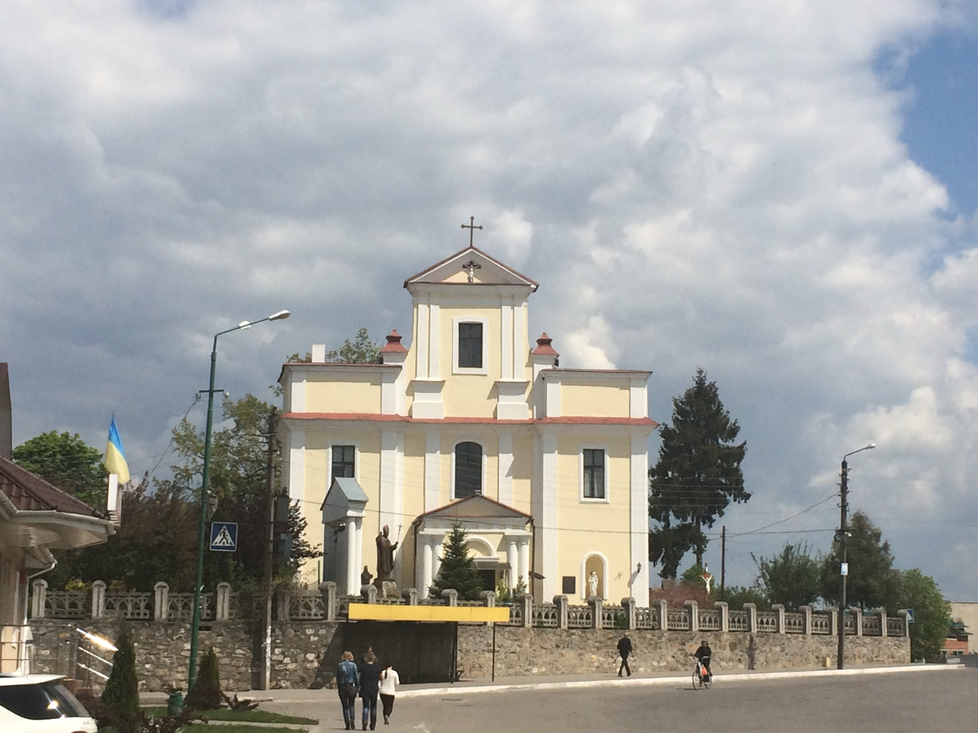 catholic catheral